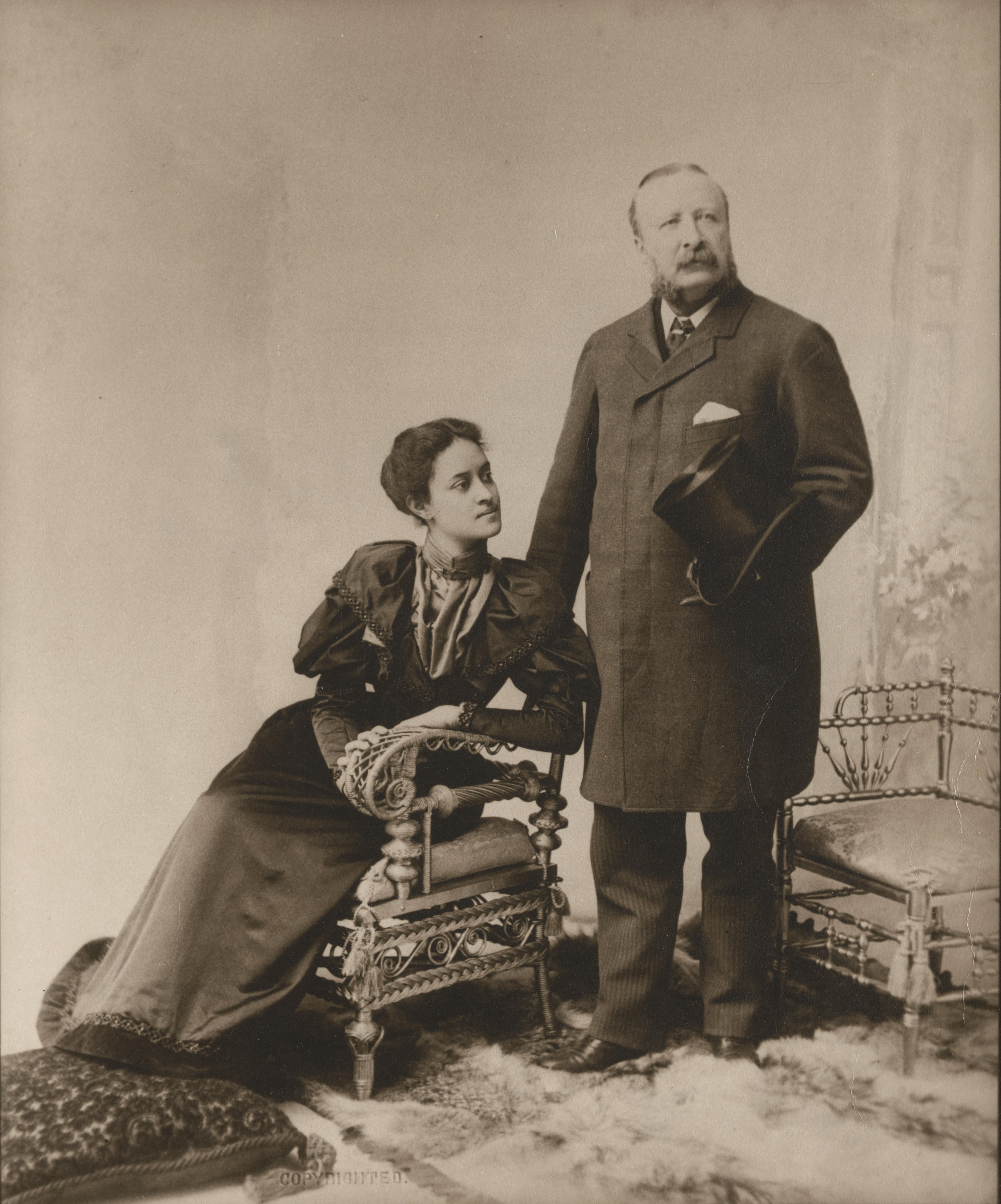 A photo of Princess Ka'iulani and Mr. Theophilus Harris Davies taken in Boston, Massachusetts 1893.